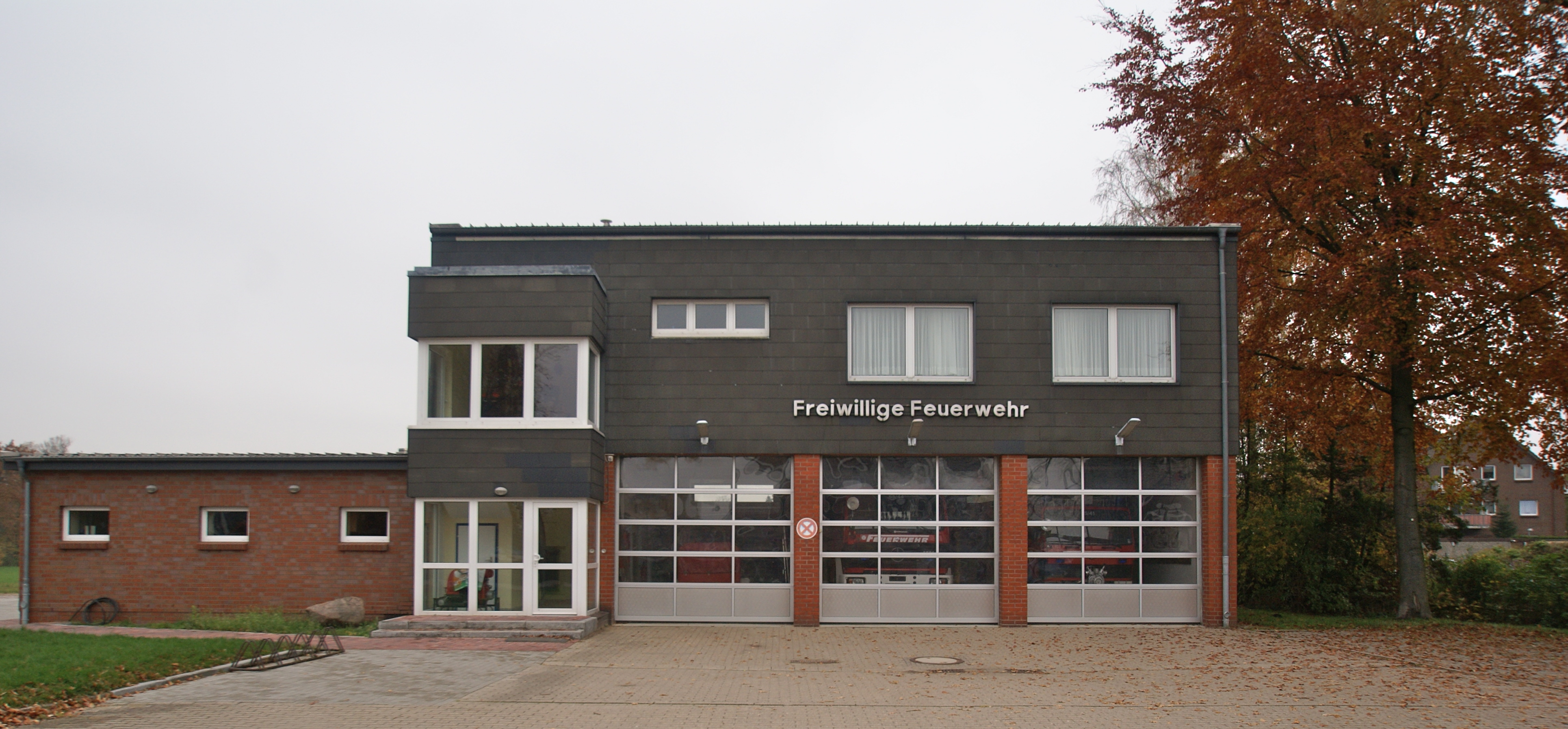 Tangstedt, Germany: Fire Station